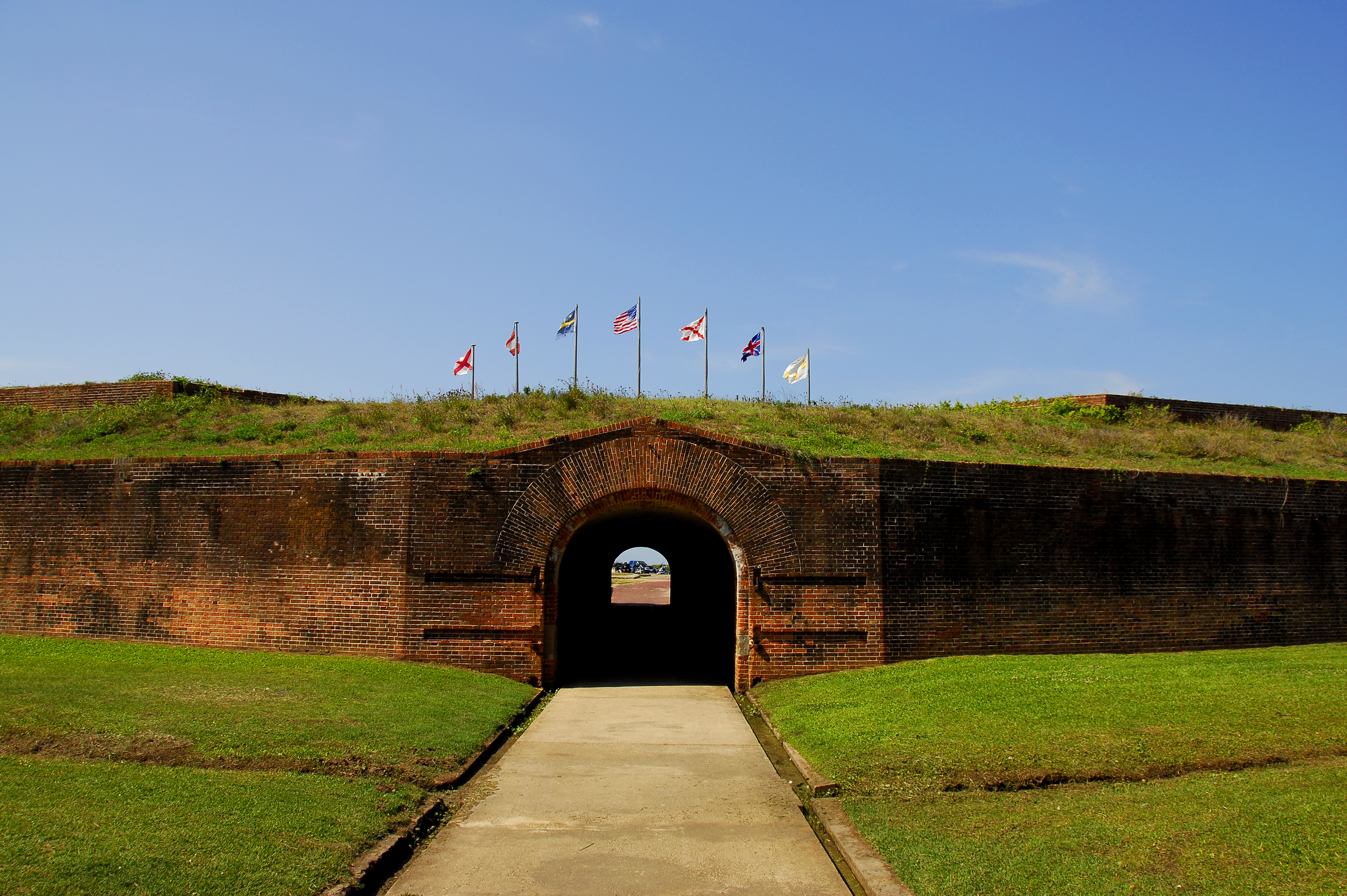 Postern from insdie the ditch , Fort Morgan., Alabama, U.S.A.